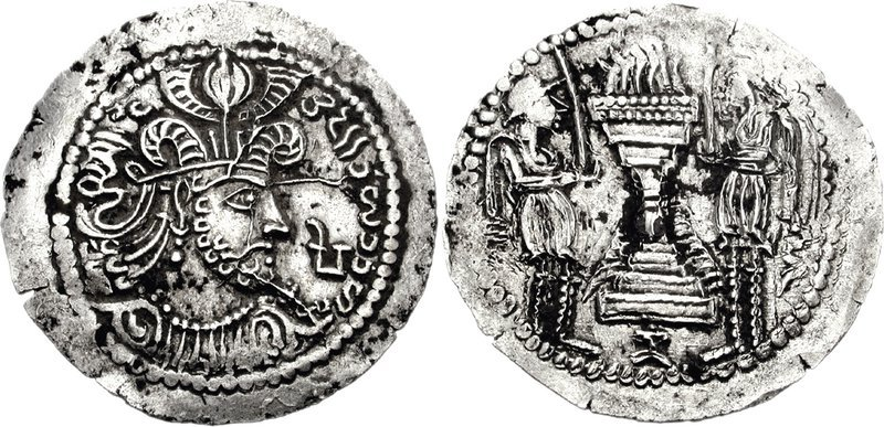 Peroz III Kushanshah in profile. Circa AD 350-360. AR Drachm (3.88 g, 3h). Crowned bust right; Brahmi “Pi” to right / Fire altar with attendants and ribbons; Brahmi “Nam” in exergue.